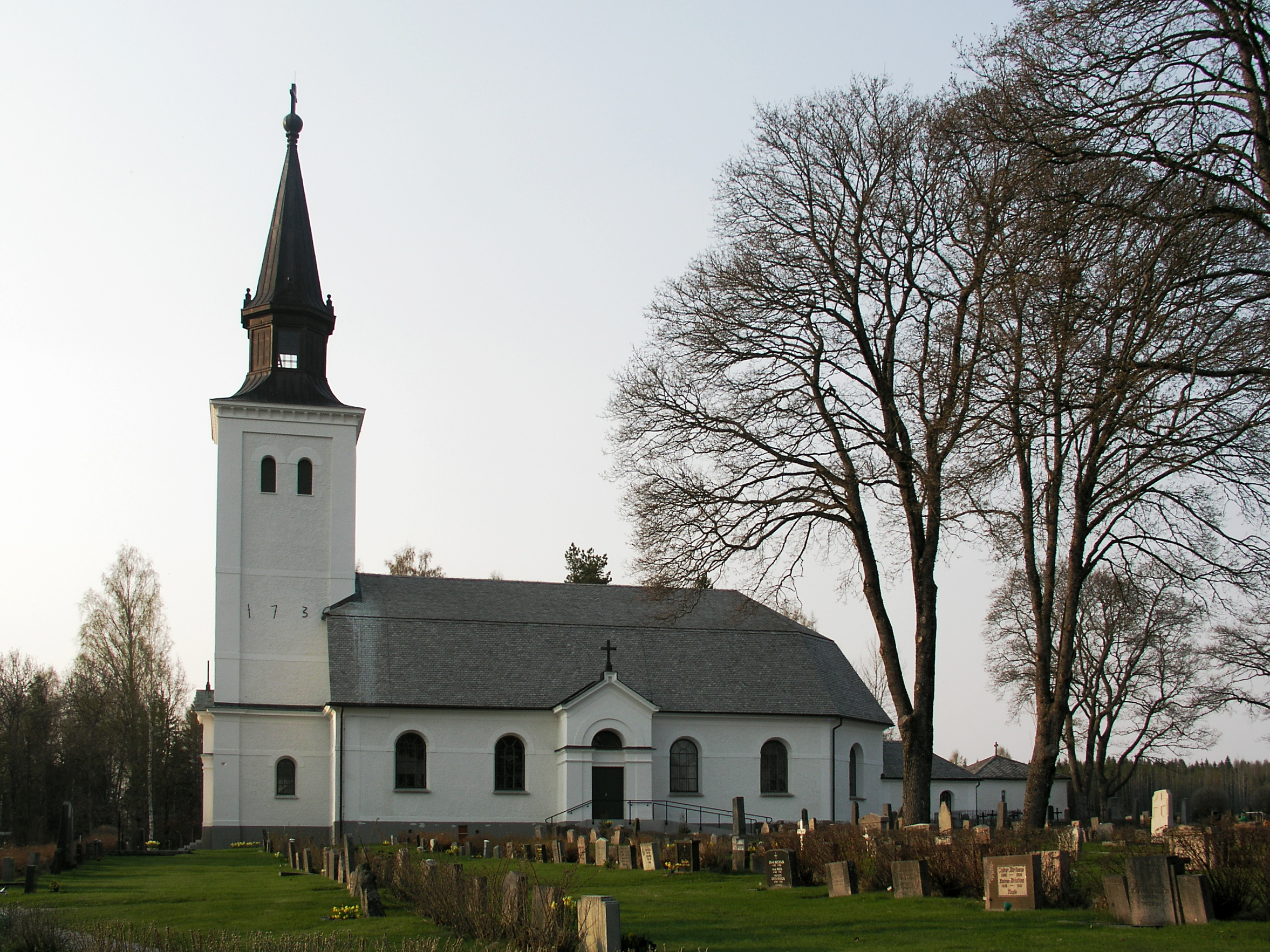 Glava church, Diocese of Karlstad. Sweden. View.